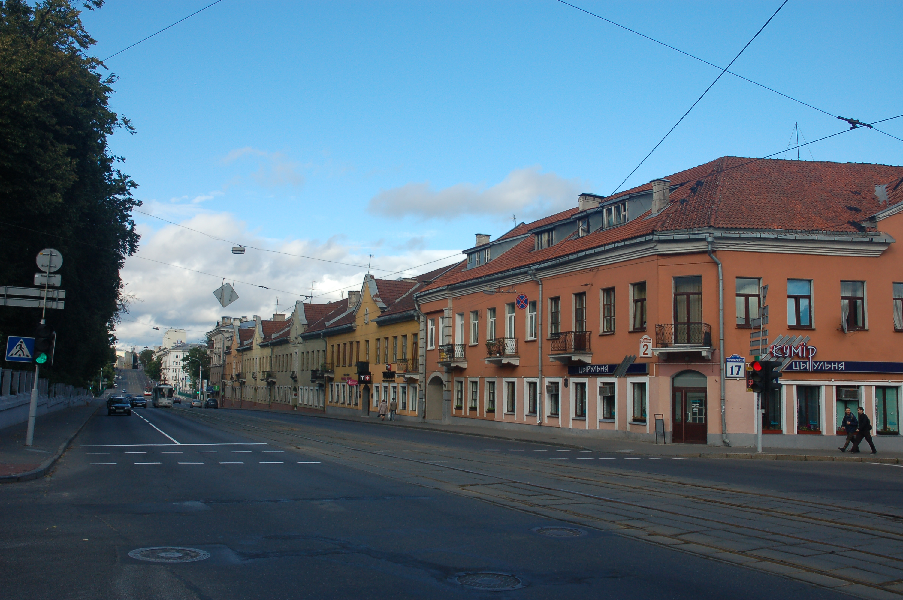 Minsk, Pershamajskaja Street